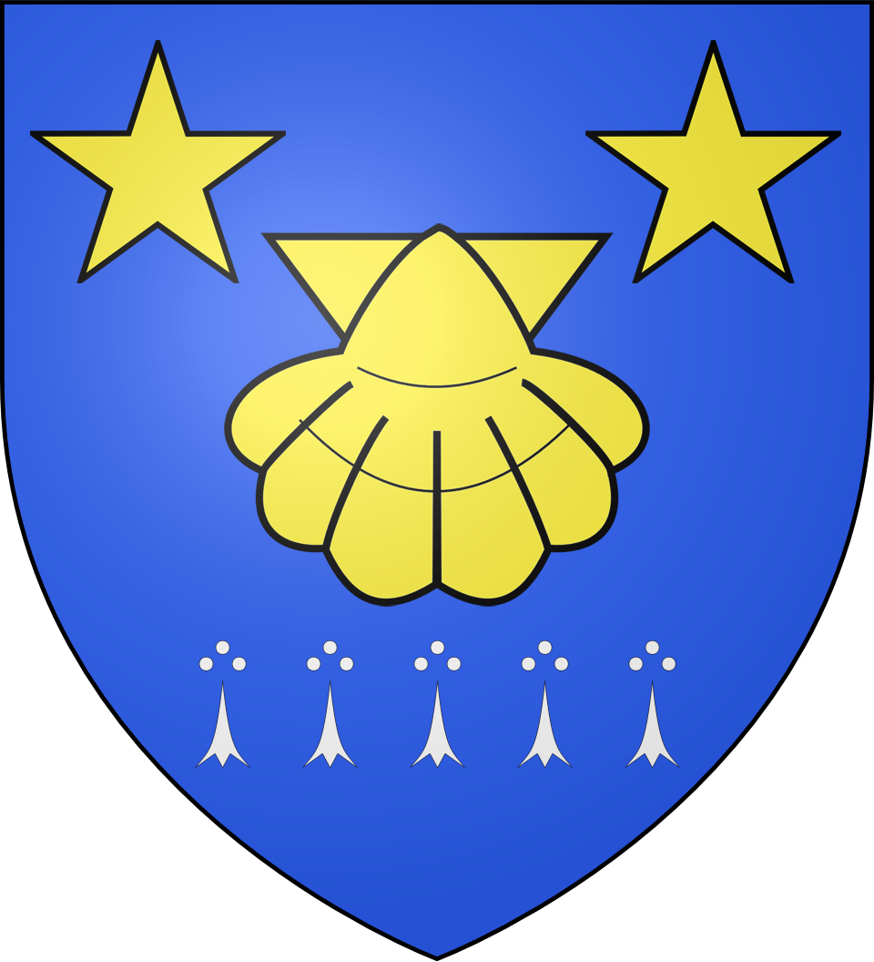 Coat of arm of the French city Aurelle-Verlac in Aveyron.